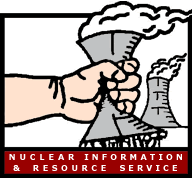 NIRS logo